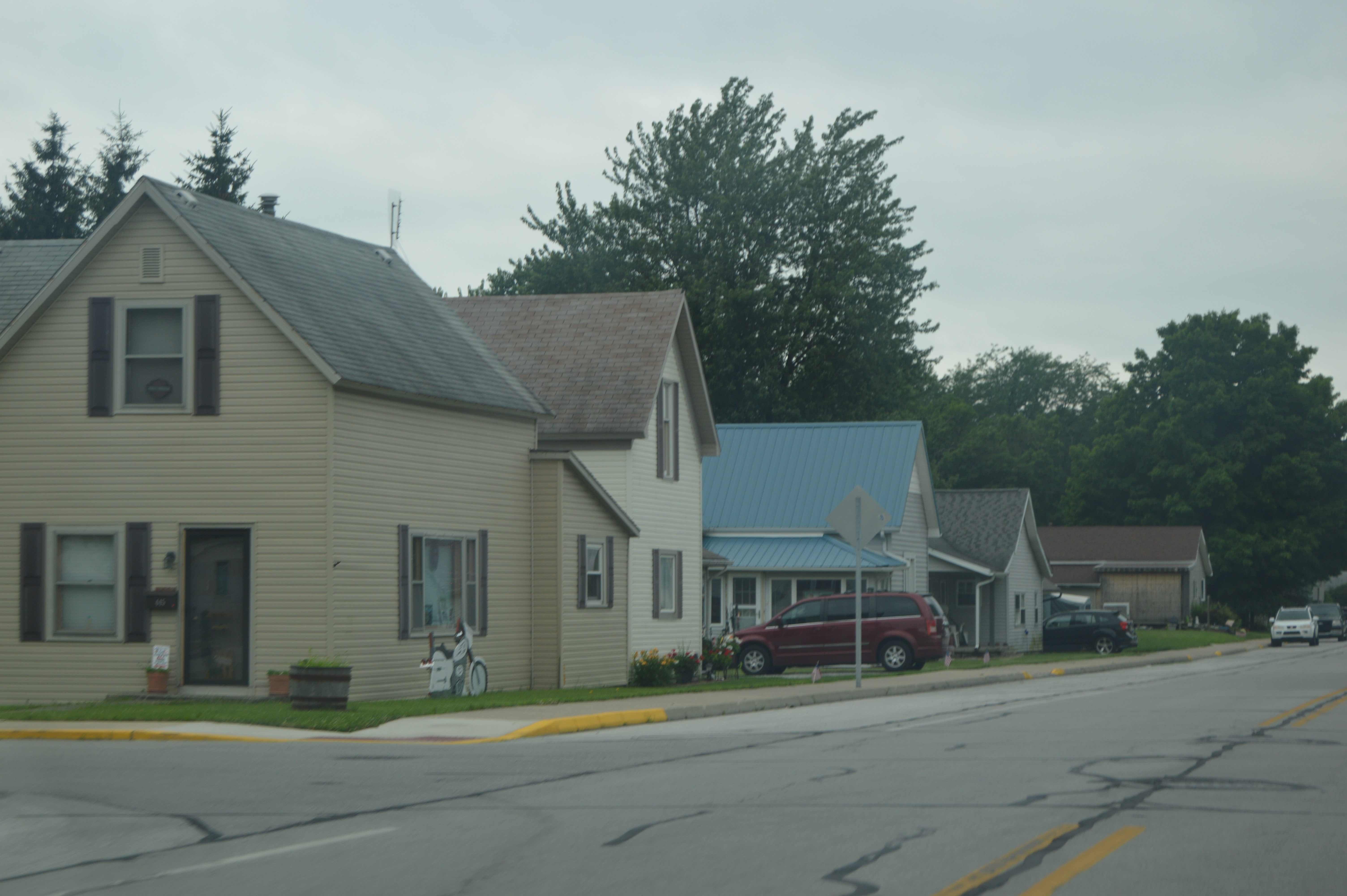 Houses on the southern side of Logan Street (U.S. Route 224) west of Lee Street in the Huntington County section of Markle, Indiana, United States.